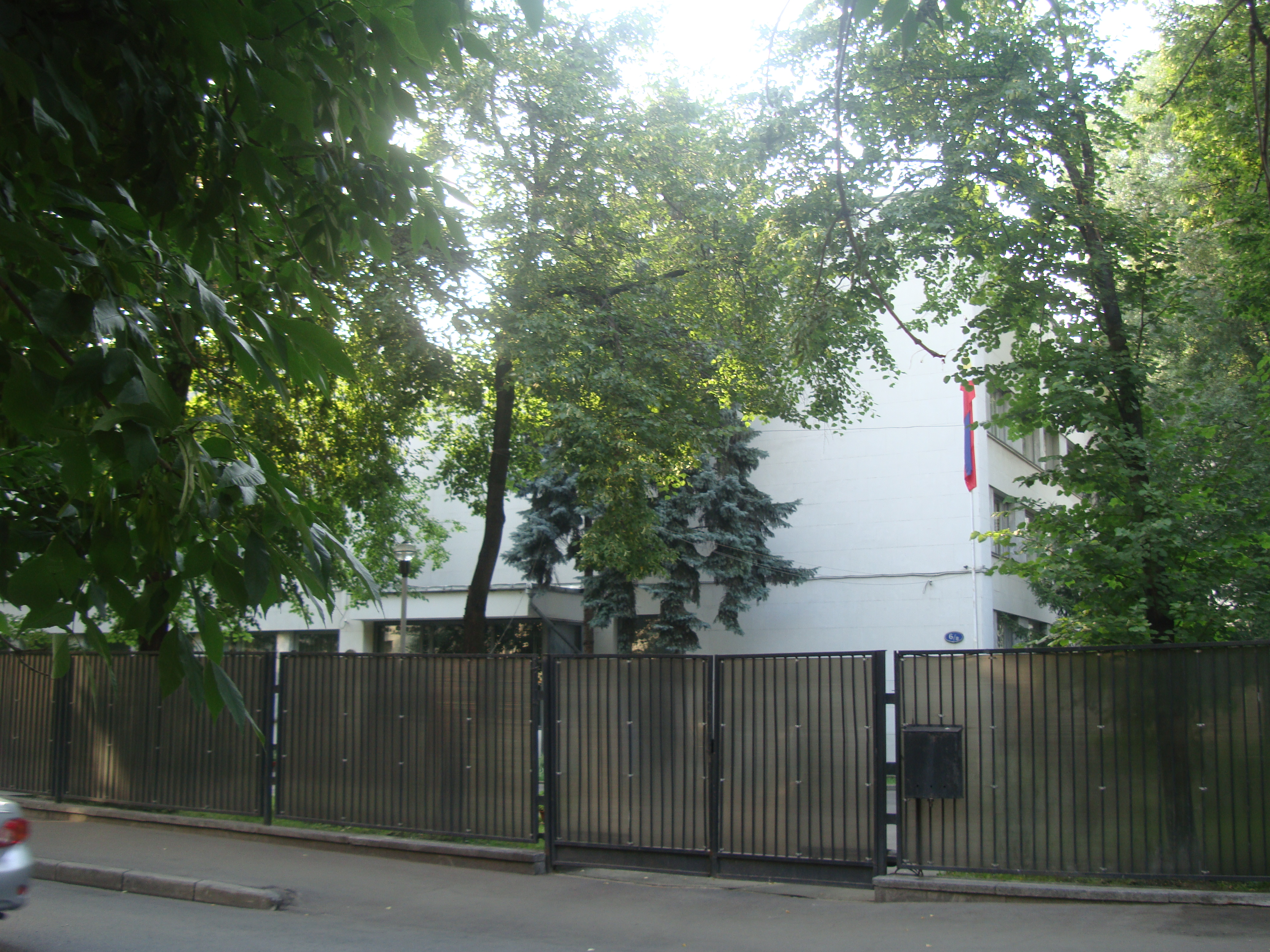 6/8 Karmanitskiy lane, Moscow, Russia. Embassy of Philippines.